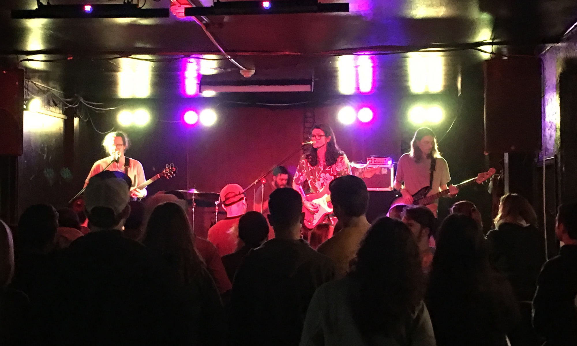 A Will Away performing at The Webster Underground in Hartford, Connecticut on December 7, 2018. From left to right: Collin Waldron, Sean Dibble, Matthew Carlson, Johnny McSweeney.